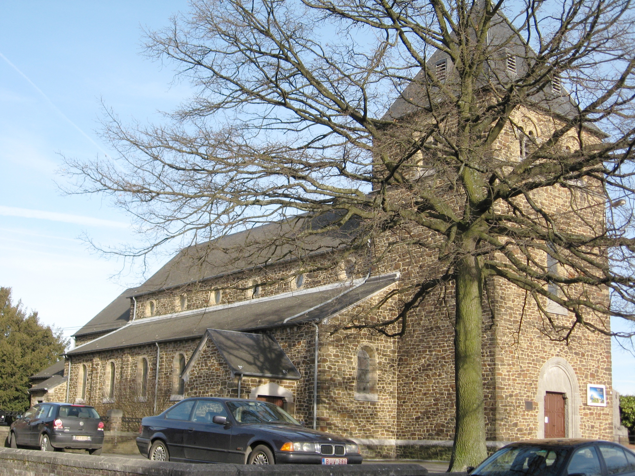 Church of Saint Joseph in Cheratte (Cheratte-Hauteurs), Visé, Liège, Belgium